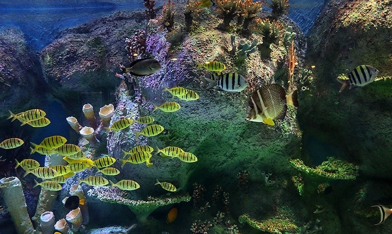 Isfahan aquarium